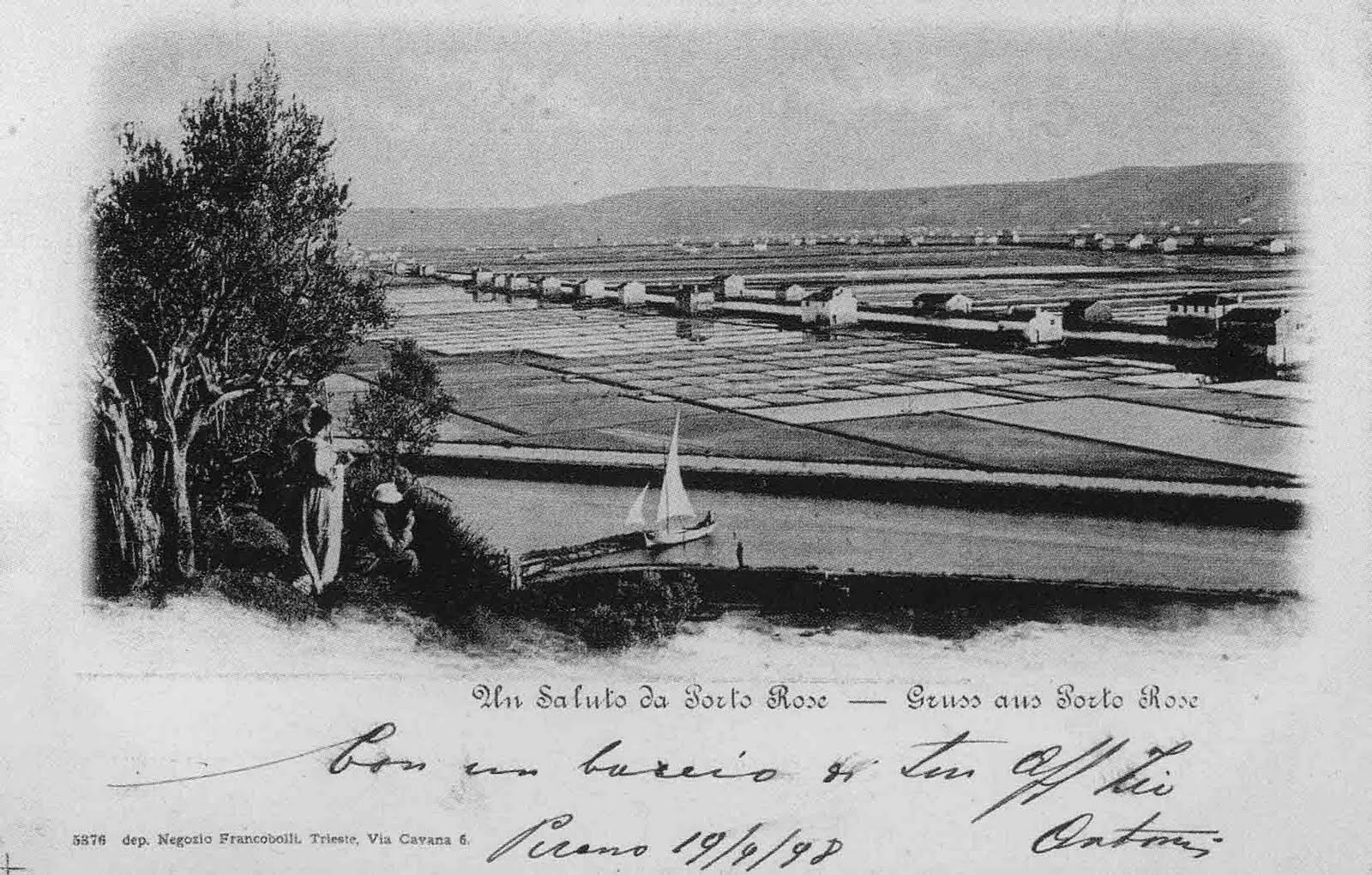 Postcard of Sečovlje